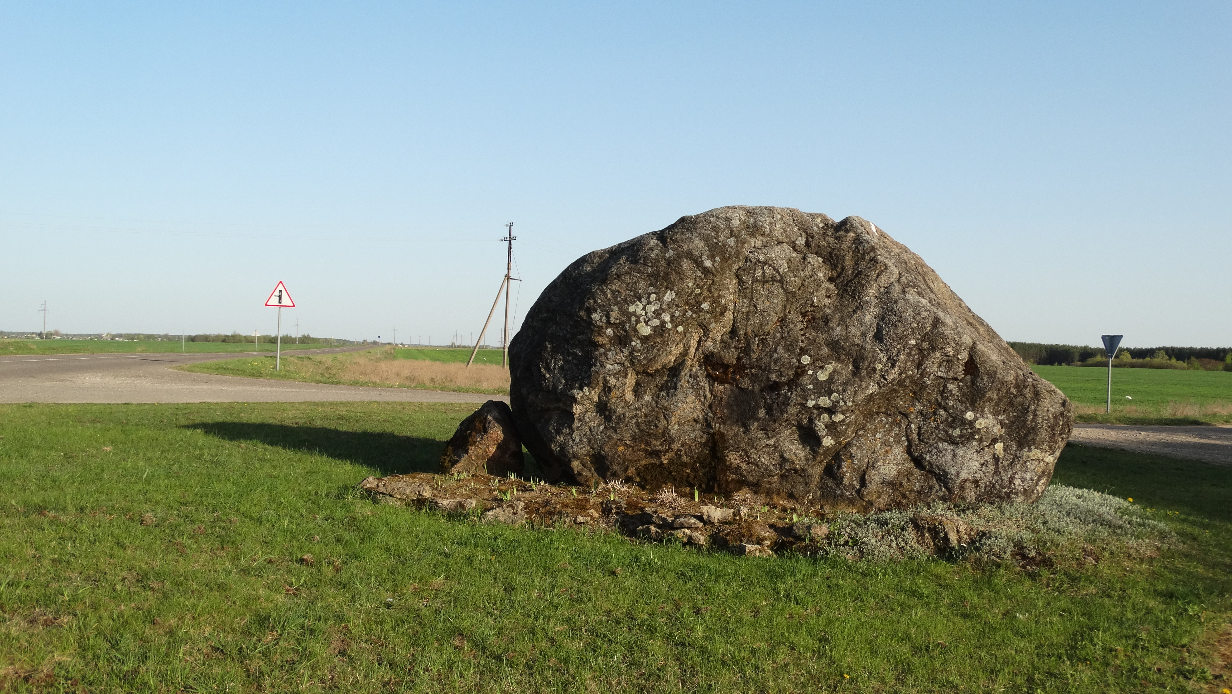 Big stone, Klovainiai, Pakruojis district, Lithuania